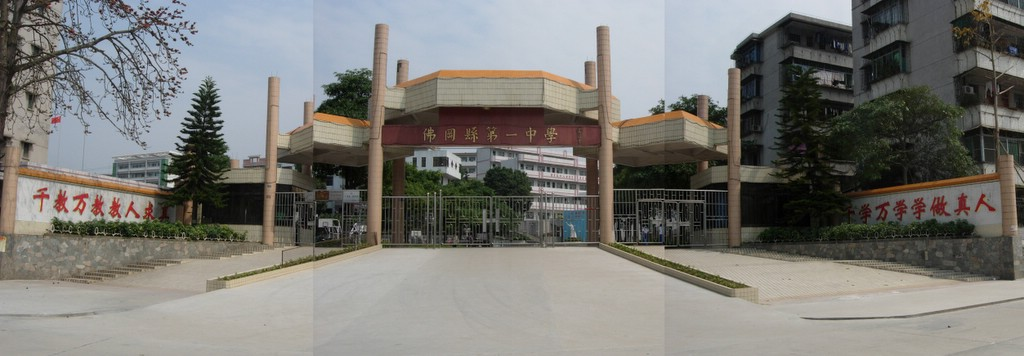 fogang first high school door